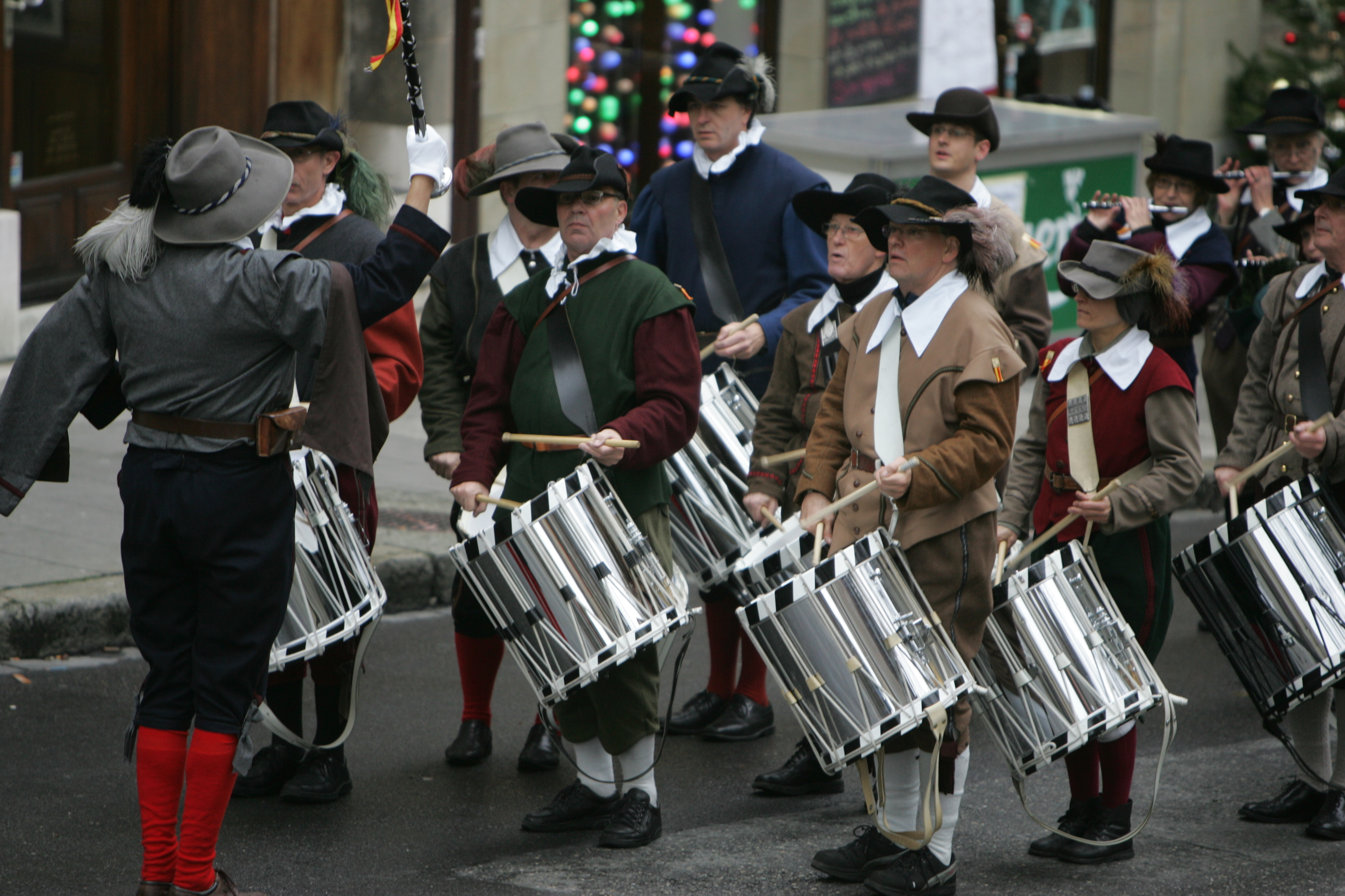 Marching bands of the Geneva Esclade of 2009